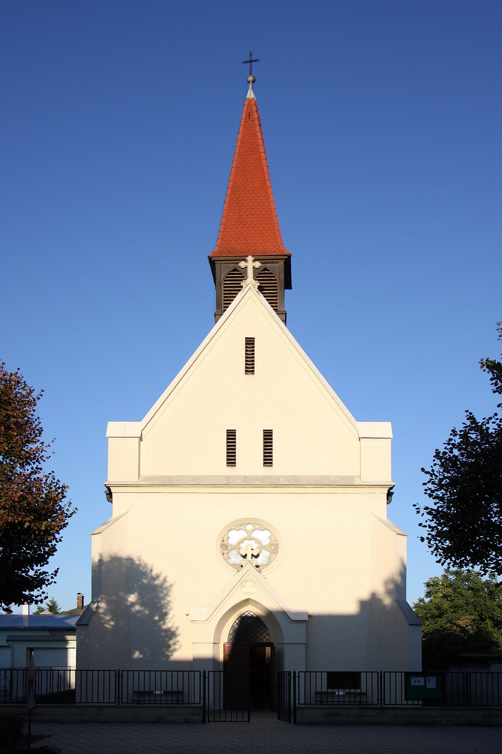 Evangelical parish church - Neufeld an der Leitha. Object location47° 52′ 00.56″ N, 16° 22′ 37.64″ E